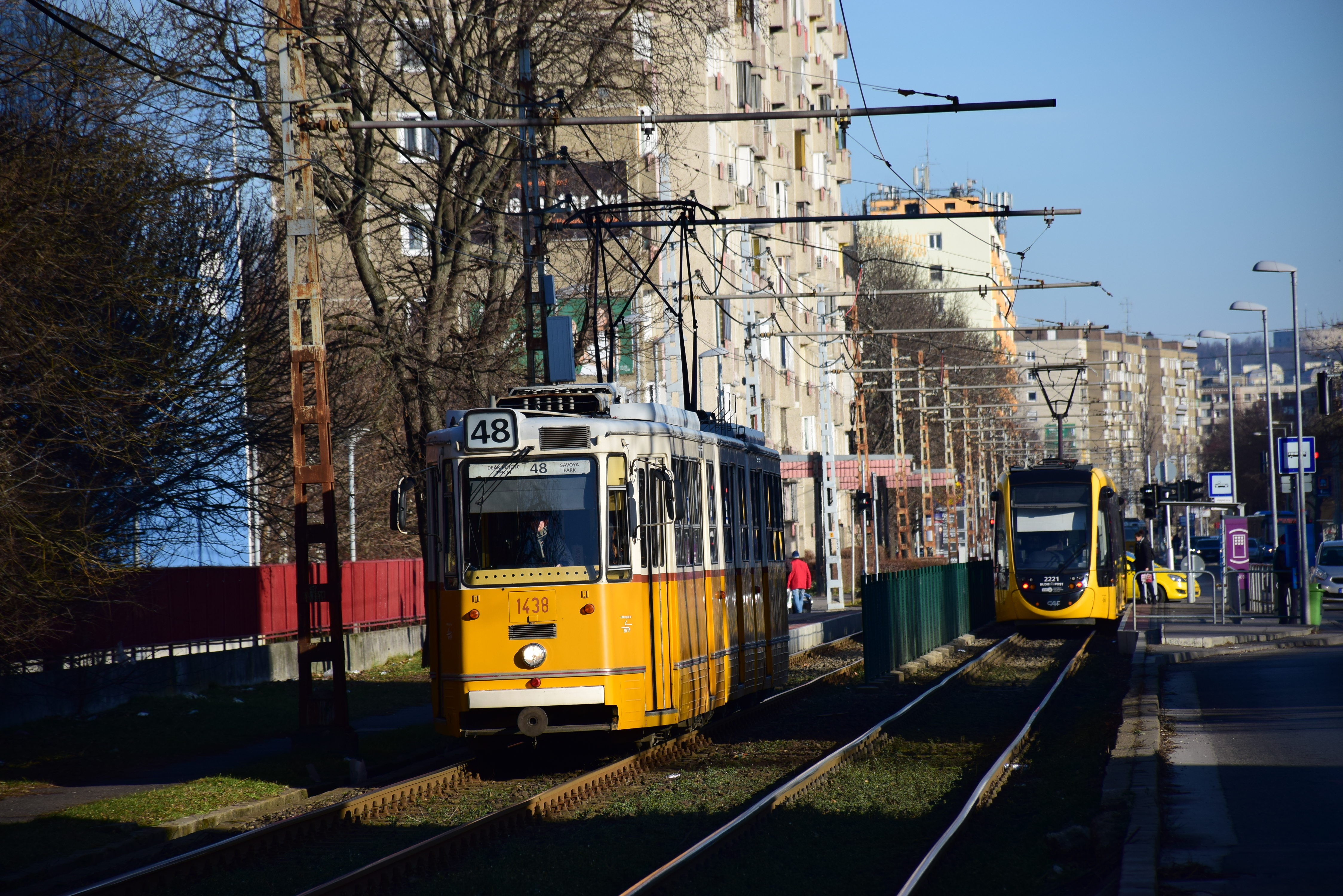 Trams on Fehérvári Street